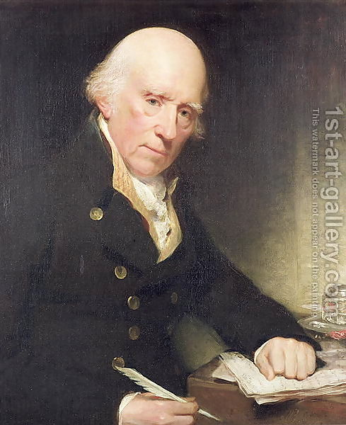 Warren Hastings.